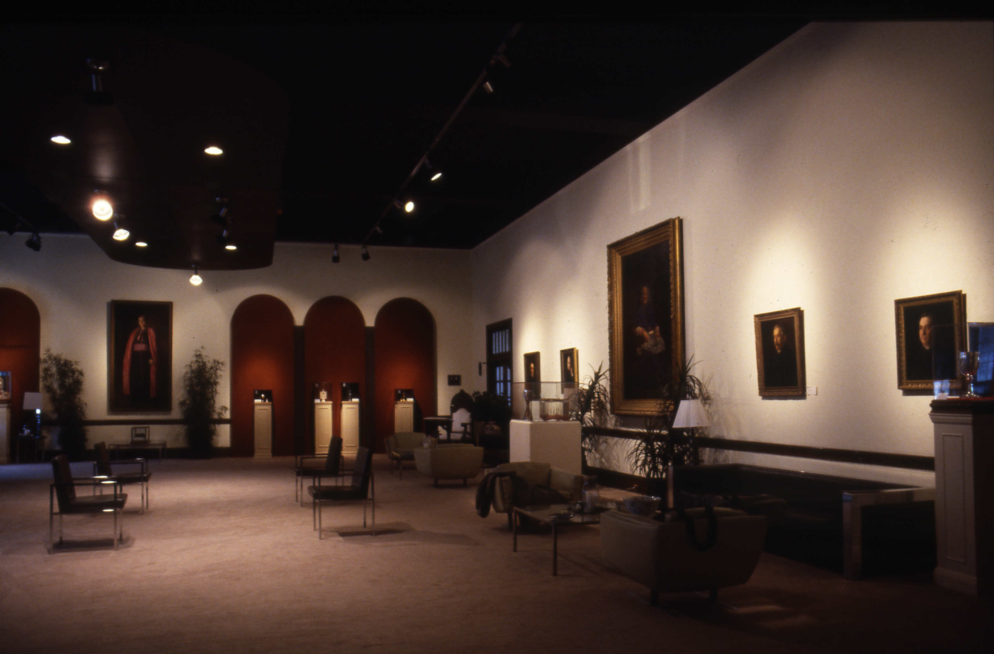 The Eakins room at St. Charles Borromeo Seminary